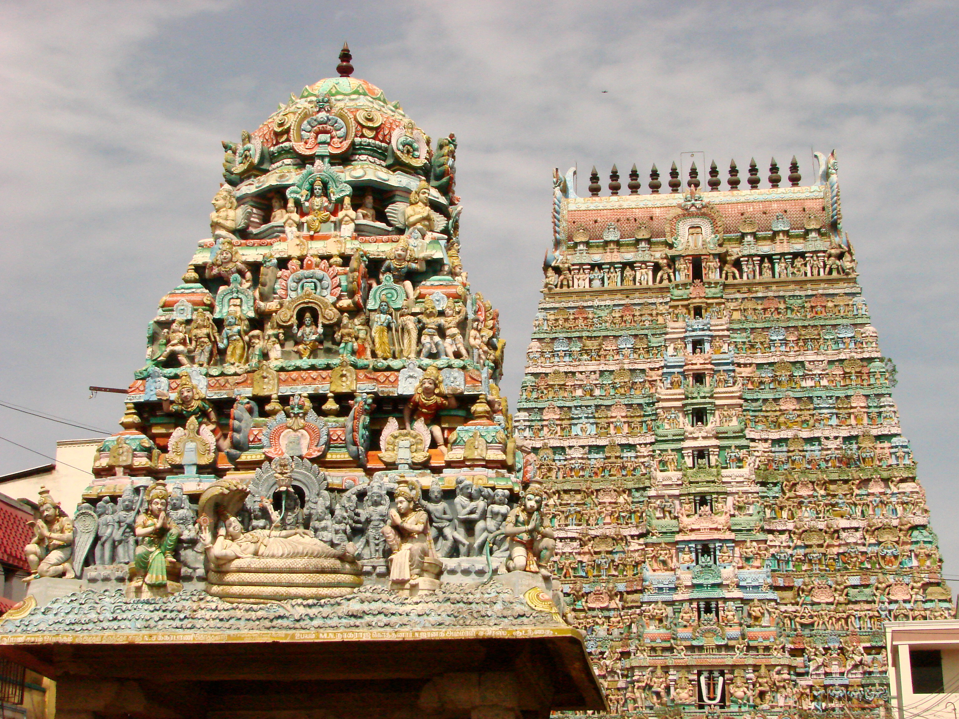 Gopuras of temple in Kumbakonam, India. July 2008.